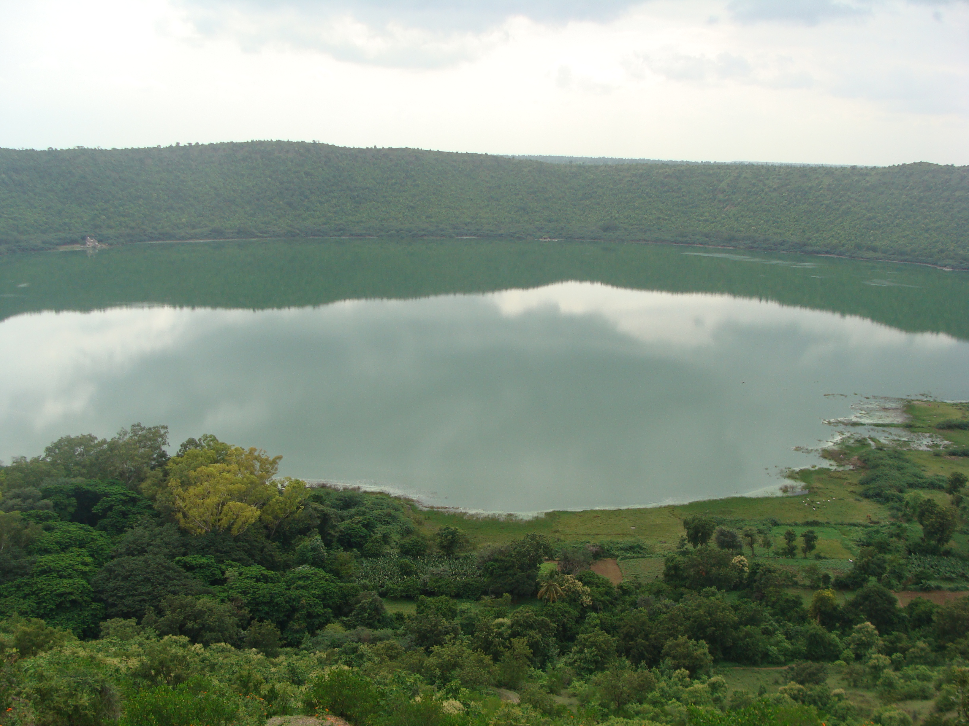 Lonar crator is it looks in August 2011